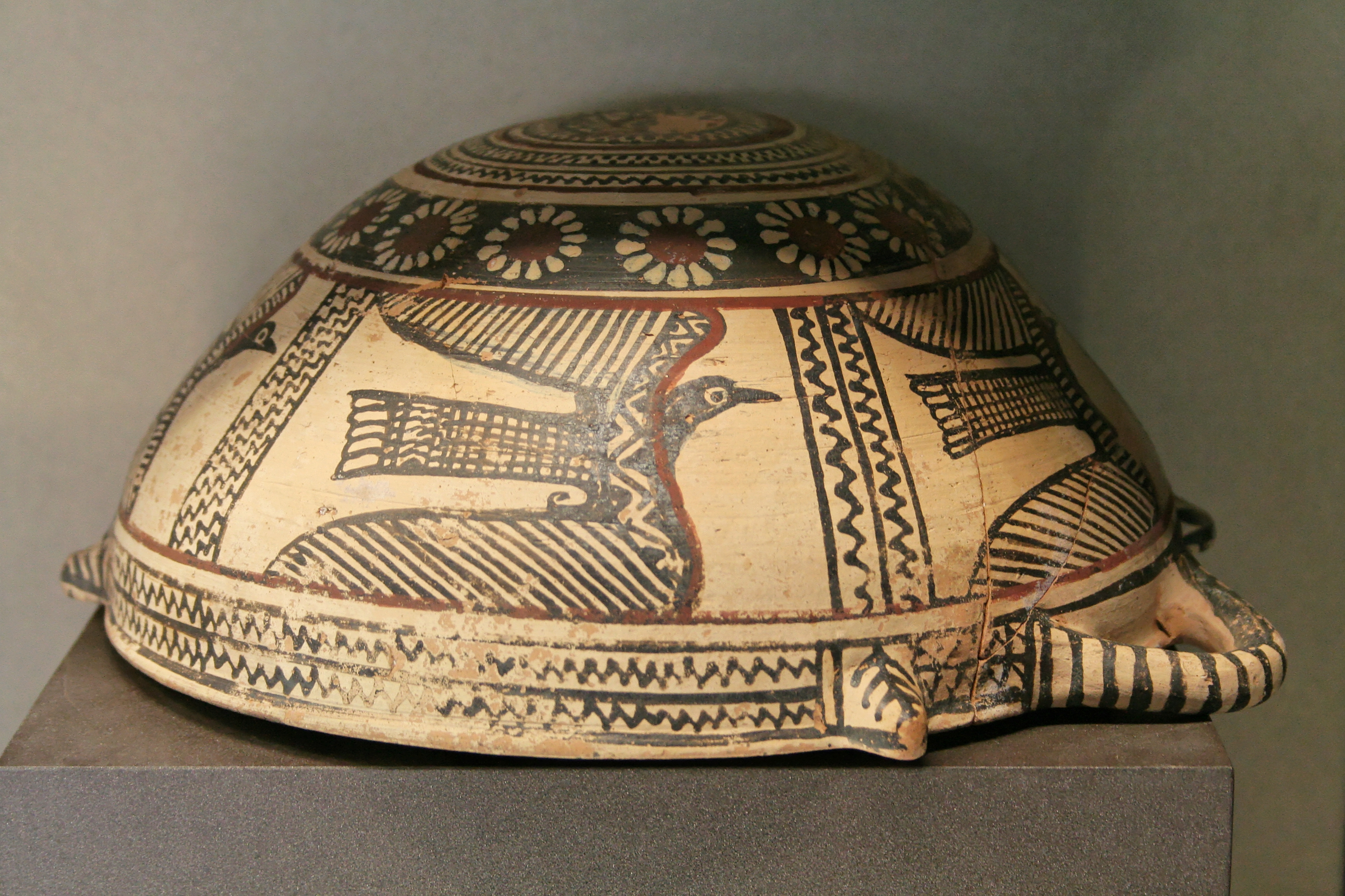 Cup with birds, ca. 550 BC. From Thebes.